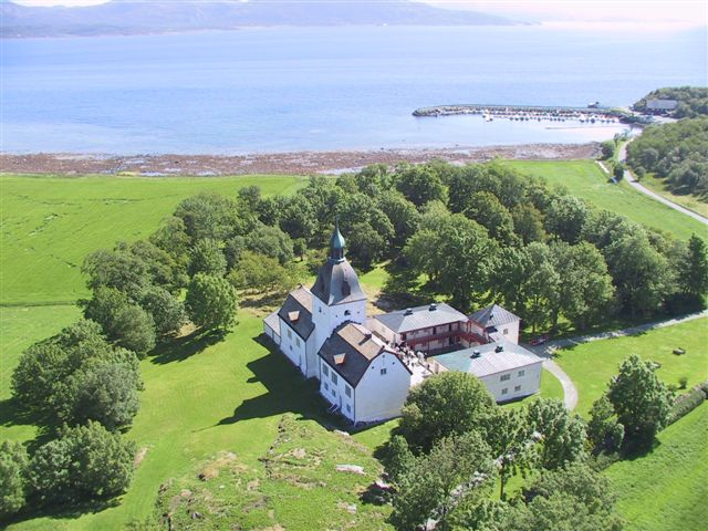 Austråttborgen (en: The Manor of Austrått), built 1656, in Ørland, Norway